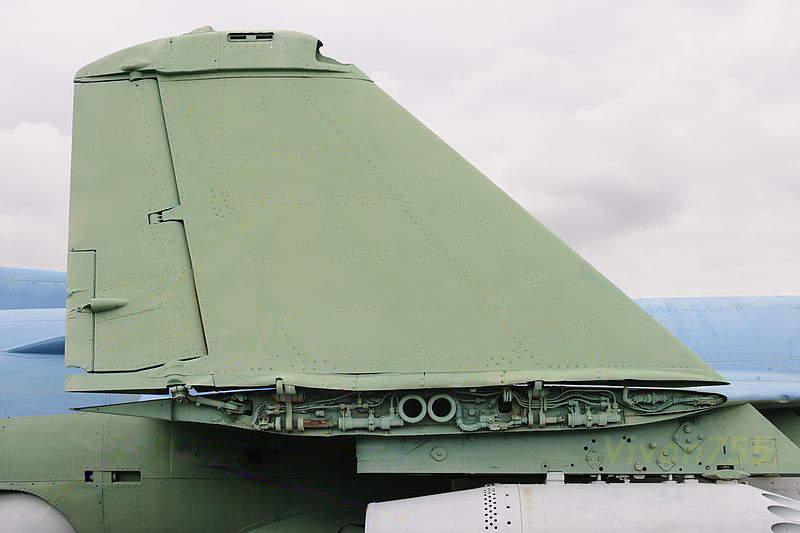 A modified version of this file - yellow lines & numbers removed